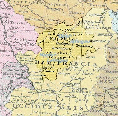 Upper and Lower Lahngau in Holy Roman Empire 1000 A.D.